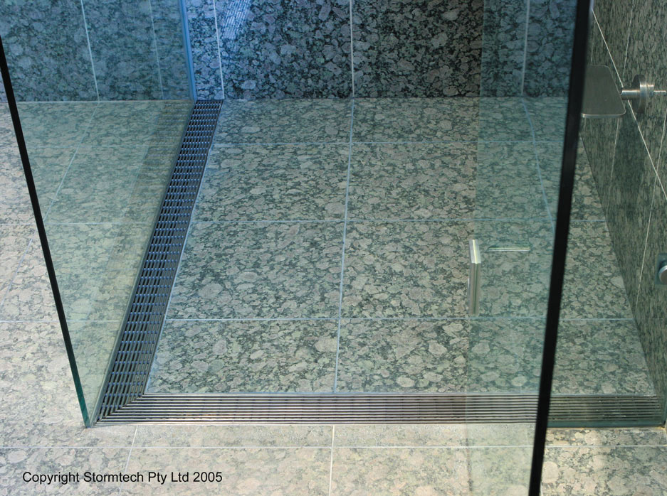 Image, slimline drain in shower Imange slimline trenchdrain in shower